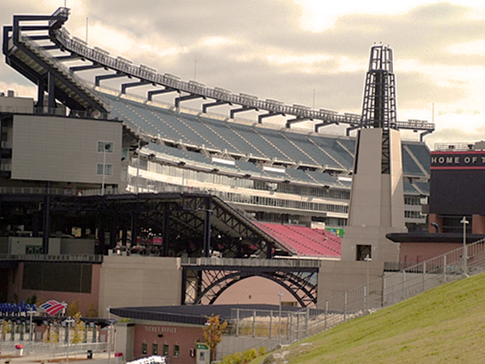 foxboro ma massachusetts boston gillette stadium new england patriots football. The lighthouse and bridge